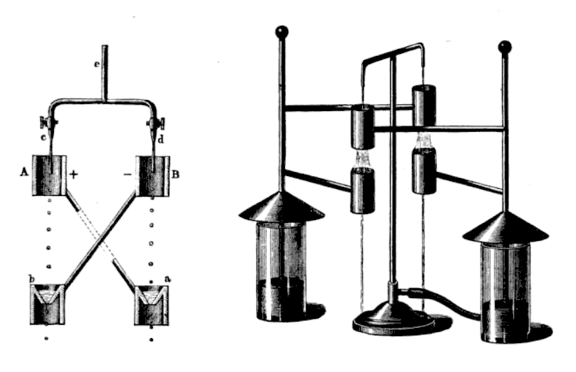 The Kelvin water dropper, an electrostatic generator invented by William Thomson, Lord Kelvin, in 1867, that works by dripping water. This drawing, appearing in many early textbooks before 1900, may be the original form of the apparatus. It consists of a water supply pipe (c, d, e) that drips two streams of water drops. Each stream falls through a cylindrical metal charging electrode (A, B) and then into a metal funnel (a, b), from which it drips to the floor. Each metal funnel is connected to the other stream's charging electrode, and to a Leyden jar capacitor (cylindrical objects sitting on ground), to store the charge. If electrode A and attached funnel a are assumed to start with a slight positive charge as shown, its electric field with attract the negative charges (ions) in the water into the drops, and each drop that falls through A will have a slight negative charge. When it collects in funnel b the charge is communicated to electrode B. This electrode will then attract positive charges into its stream of water, and each drop falling through B will have a slight positive charge. These drops collect in funnel a and transfer their charge to electrode A, thus increasing its positive charge. By this process, as the drops fall through the machine an increasing charge will build up on the electrodes, positive charge on A and a, and a negative charge on B and b.